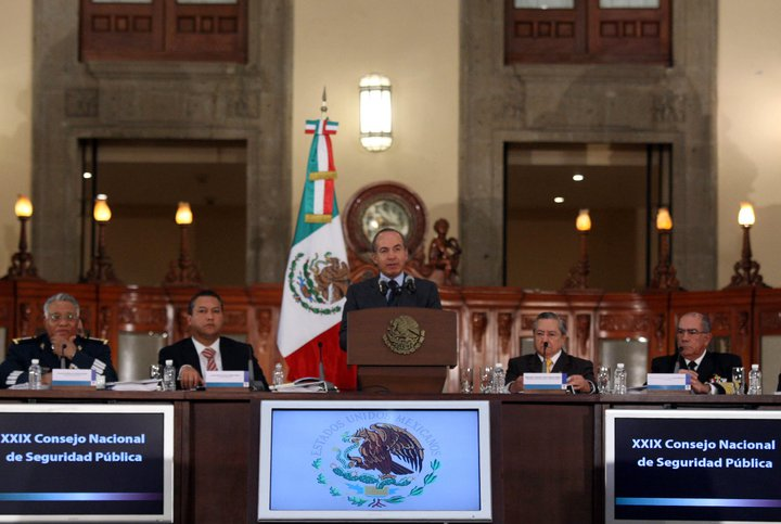 Felipe Calderon. President of Mexico. From his official Facebook page. Listed as public domain.